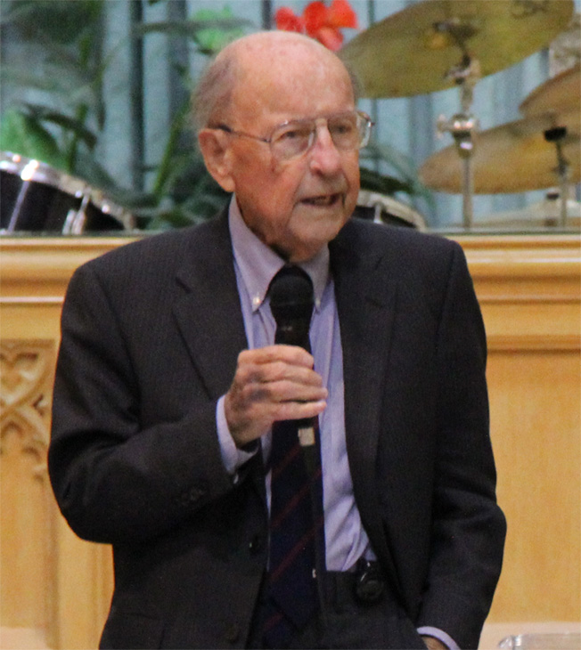 Canadian politician Sinclair Stevens, pictured in 2013. Photo used in the following places